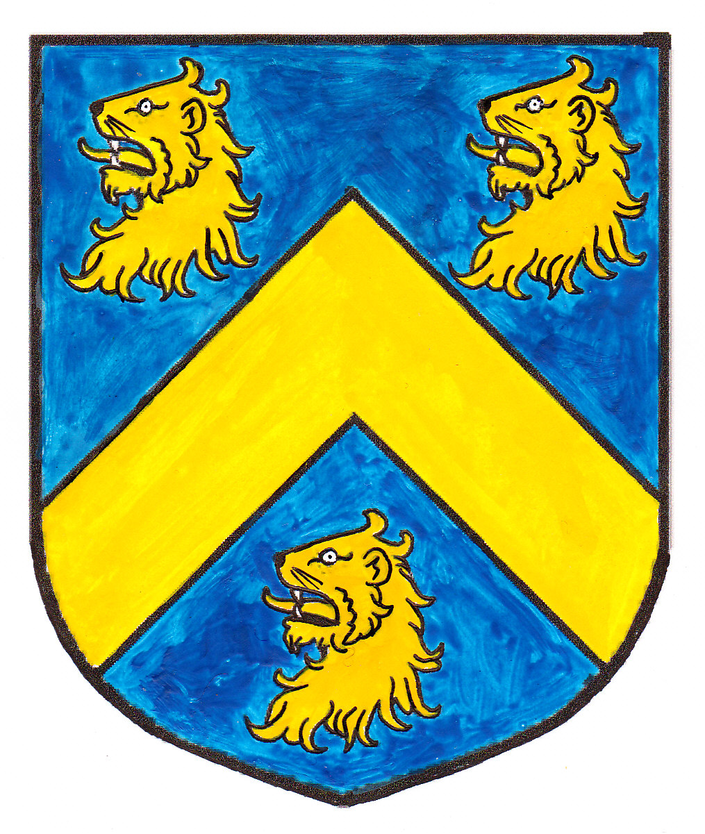 The armorials of the Wyndham family: "Azure, a chevron between three lions' heads erased Or".